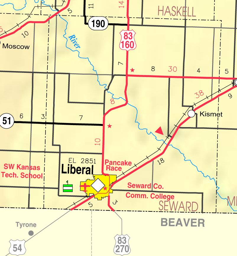 This map of Seward County, Kansas, USA, is copied at a resolution of 300 pixels/inch from the original PDF file.